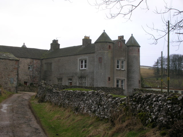 Smardale Hall. Sixteenth century farmhouse with distinctive corner turrets.